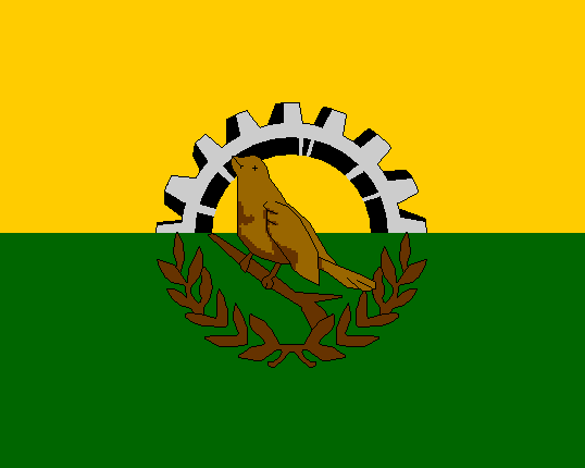 Official Flag of San Pedro Sula, second largest city in Honduras; adopted on June 10, 1986.